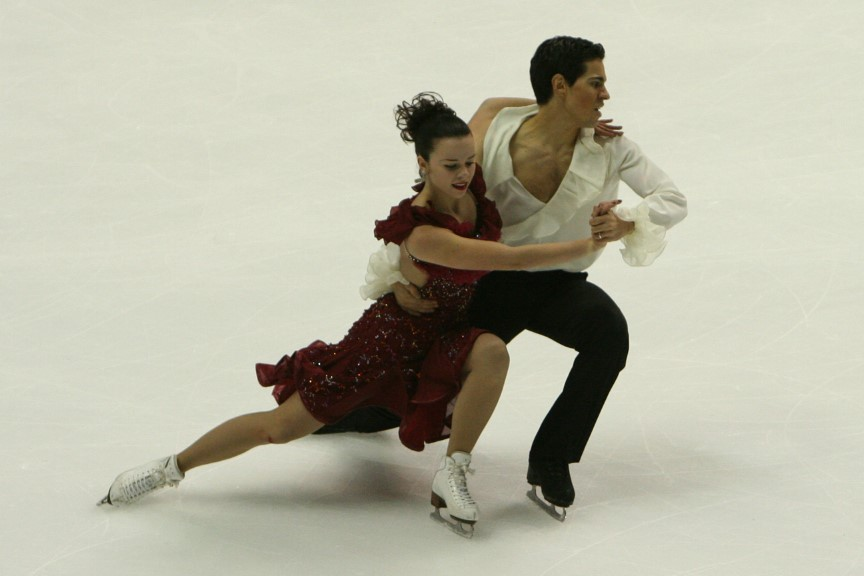 Anna Cappellini and Luca LaNotte perform a lunge during their free dance at the 2007 Skate Canada